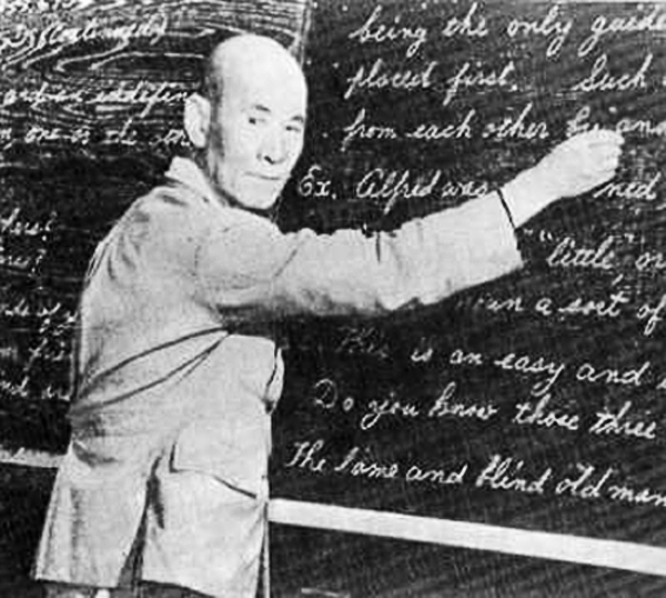 Shigeyoshi Inoue (1889–1975). When he was studying English after the war, Inoue also had a deep insight as a teacher, rejecting the abolition of English education since the head of the Naval Academy, and conducting thorough English education.